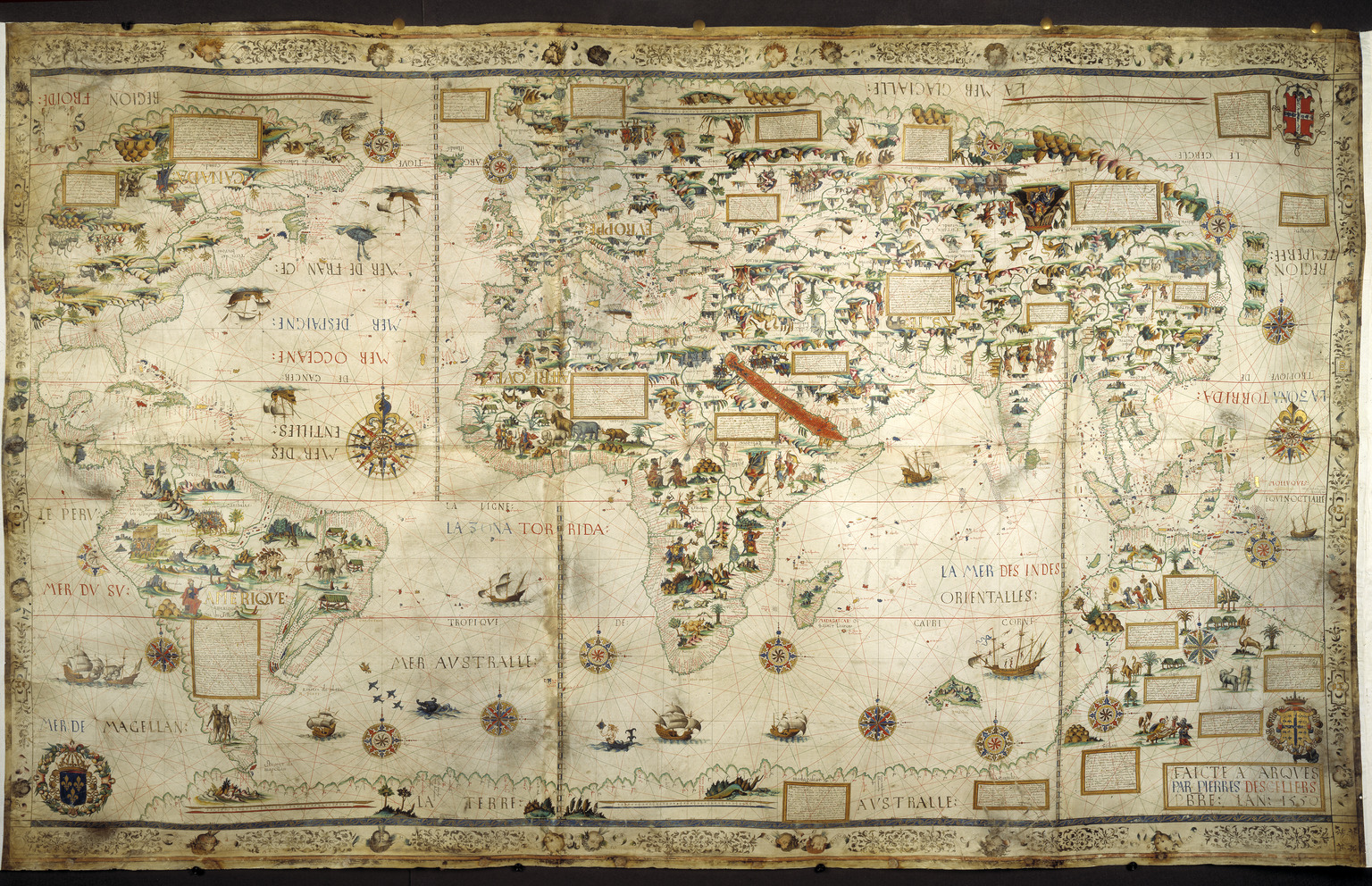 [Whole map] Desceliers map of the world; with illuminated borders, drawings, and the arms of France, Montmorency and Annebaud.